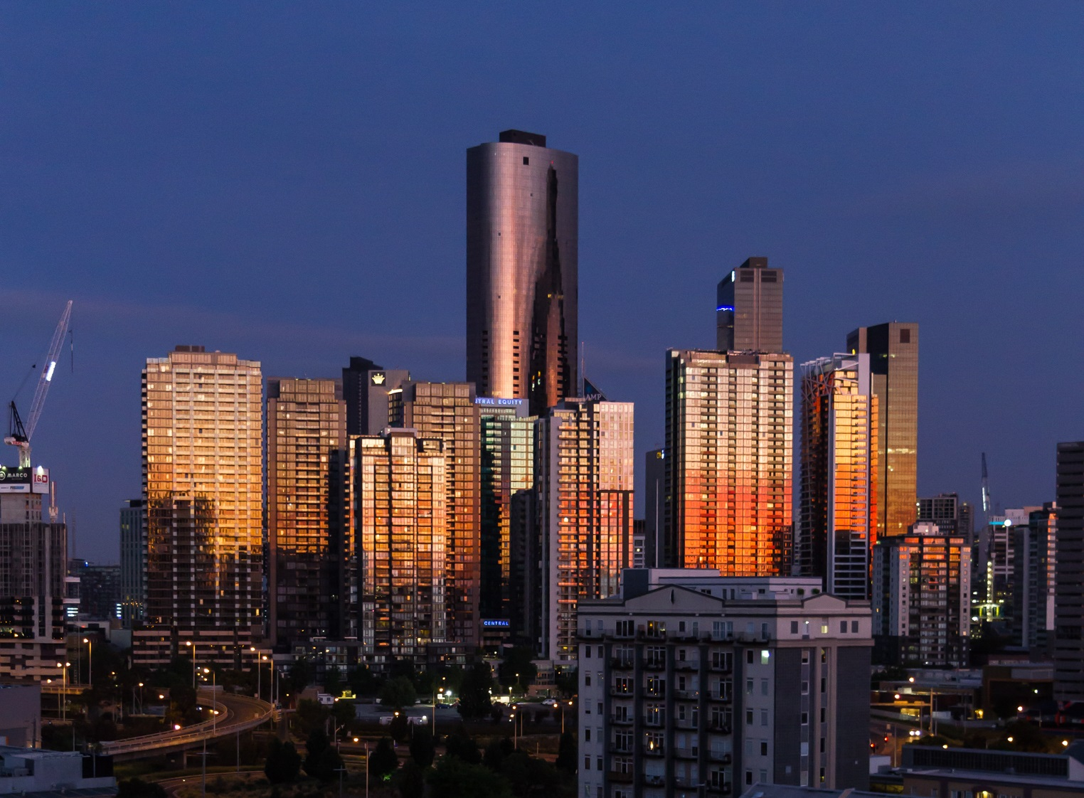 Residential towers in Southbank, Melbourne